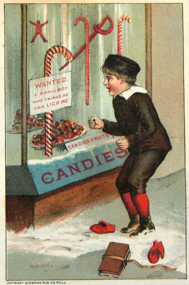 A boy looking at a candy cane in a store window on a promotional card by William B Steenberge